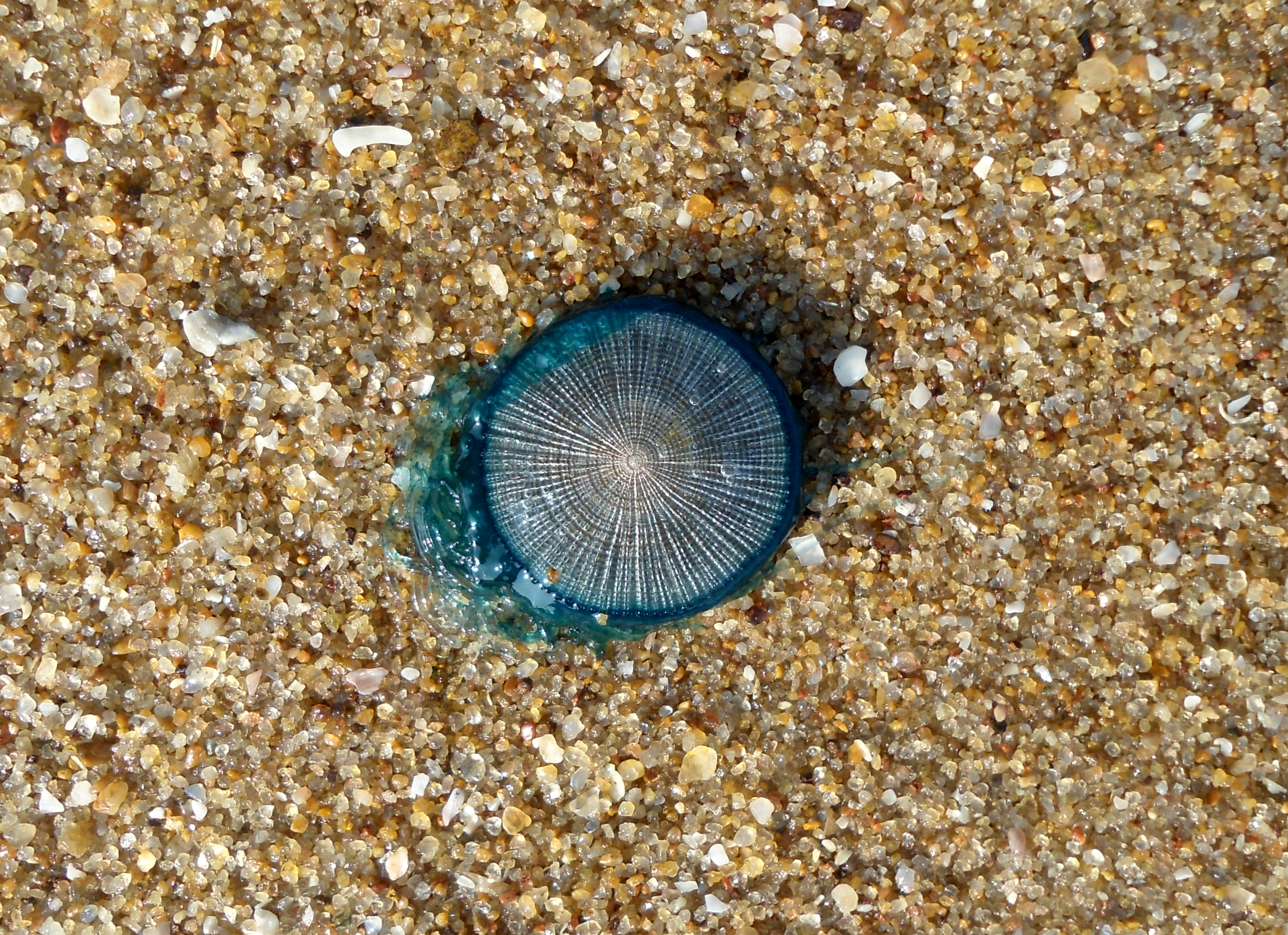 Porpita porpita Blue button (Hydrozoa: Anthoathecata) at Thotlakonda beach in Visakhapatnam, India